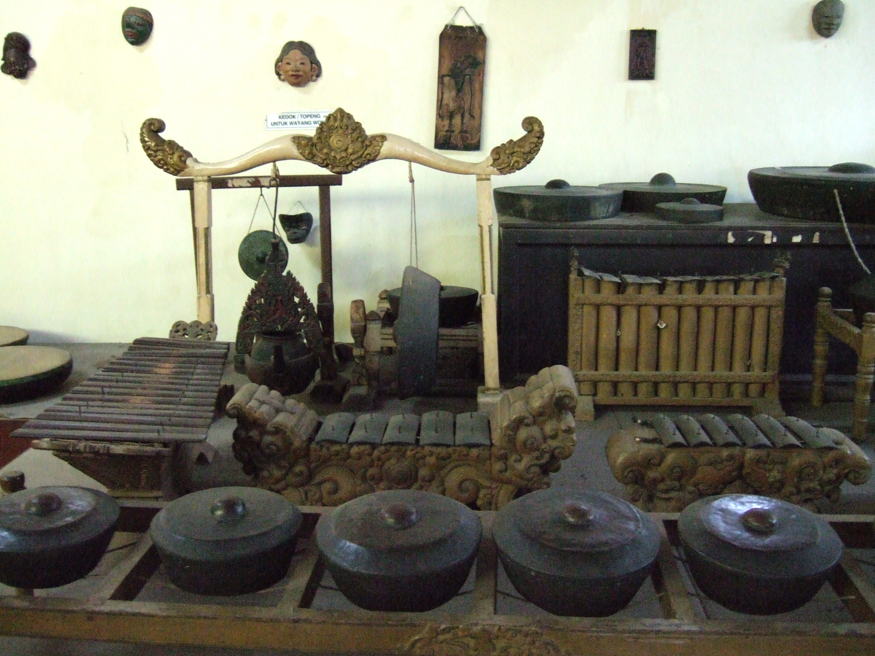 Gamelan Laras Slendro Si Ketuyung, Keraton Kasepuhan, Cirebon, Indonesia